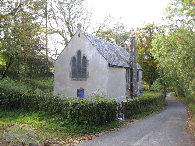 St Raphael's Church, Huccaby, Devon, seen from the northeast. It was opened in 1868 and doubled as the local school for many years with the pews being used as school desks. The church remains in use for worship.